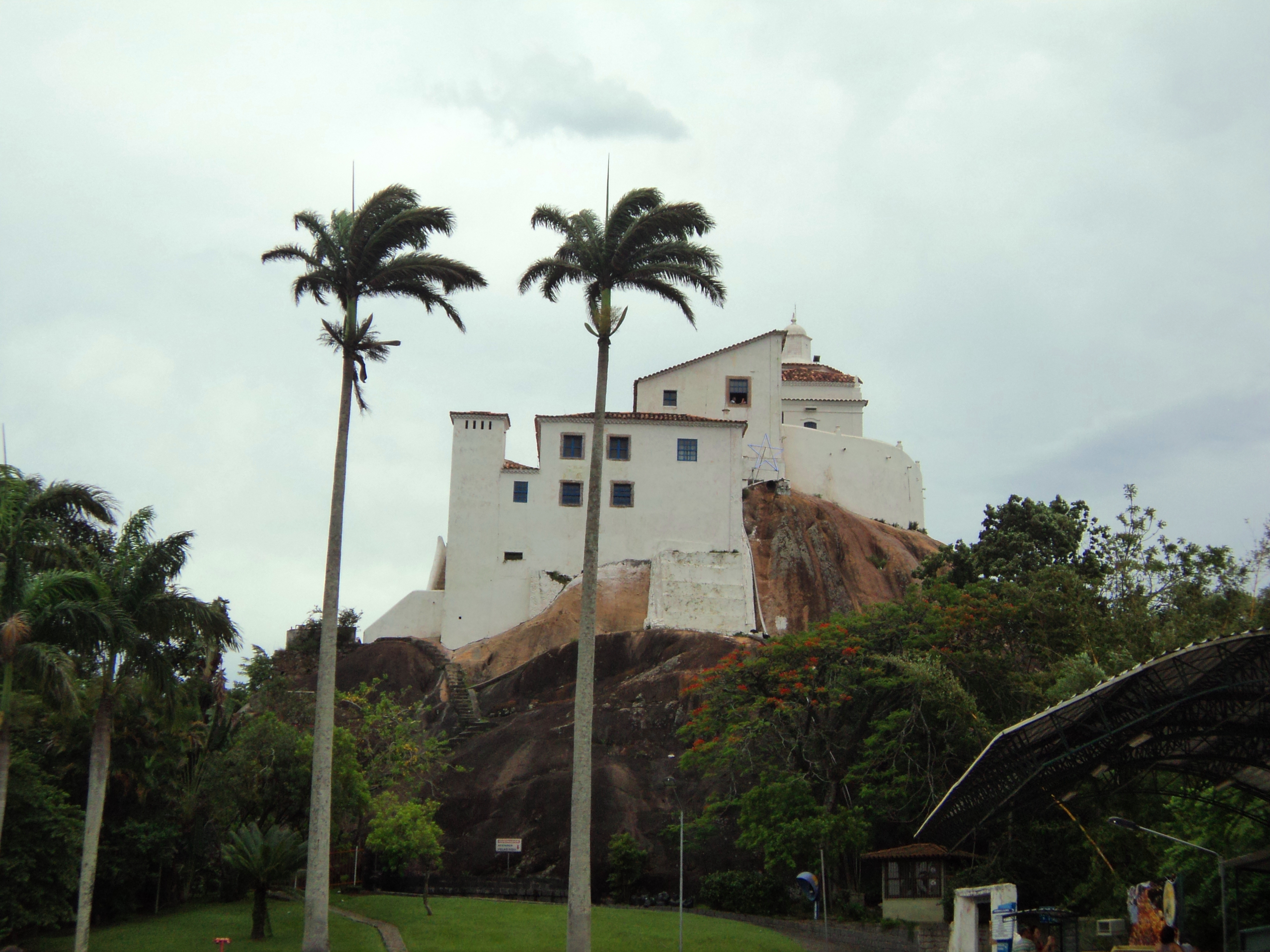 View of the Convento da Penha, in Vila Velha, Espírito Santo, Brazil.